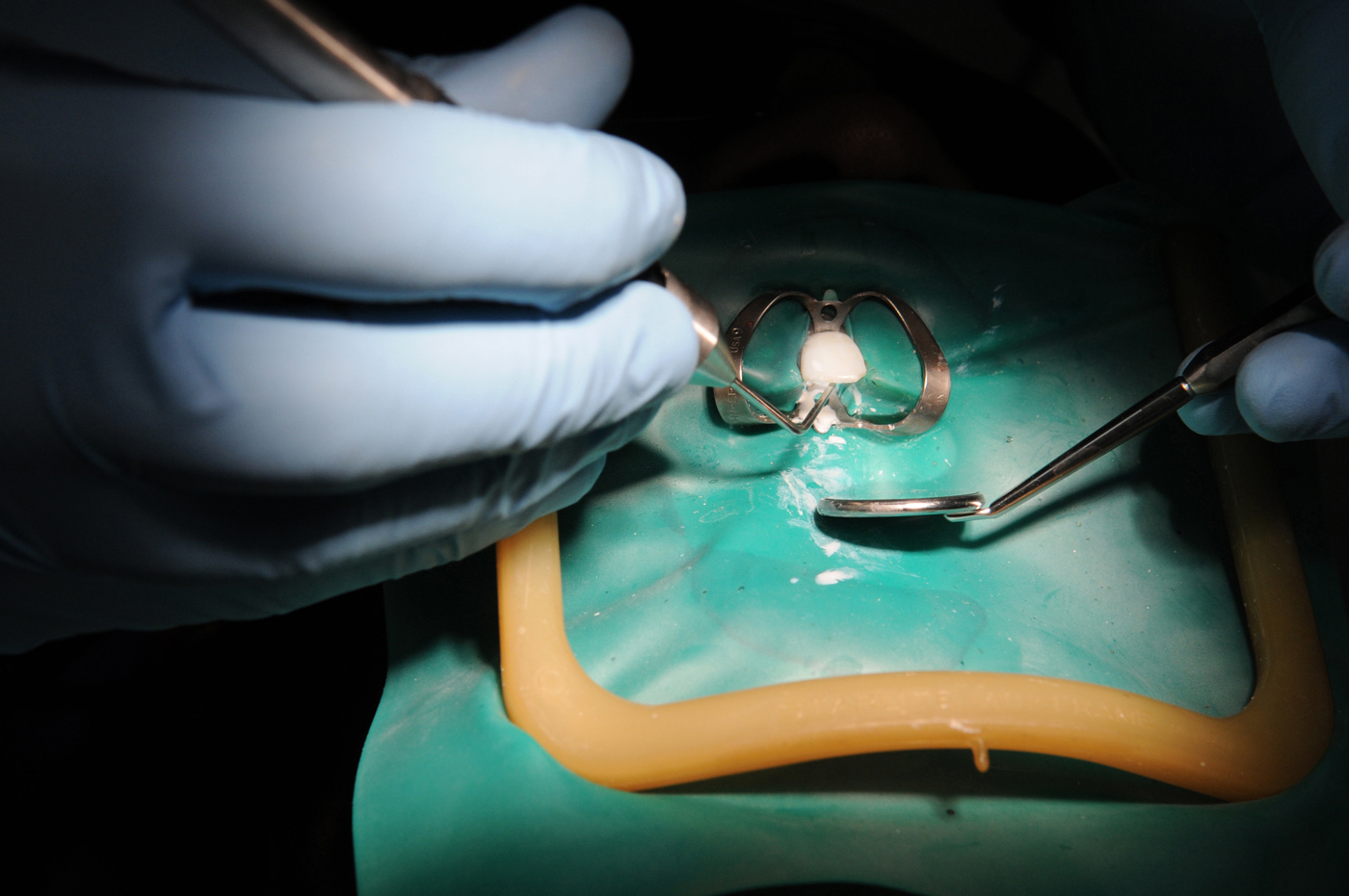 A dentist performs a root canal on a patient.